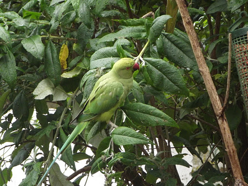 Rose-ringed Parakeet in the garden